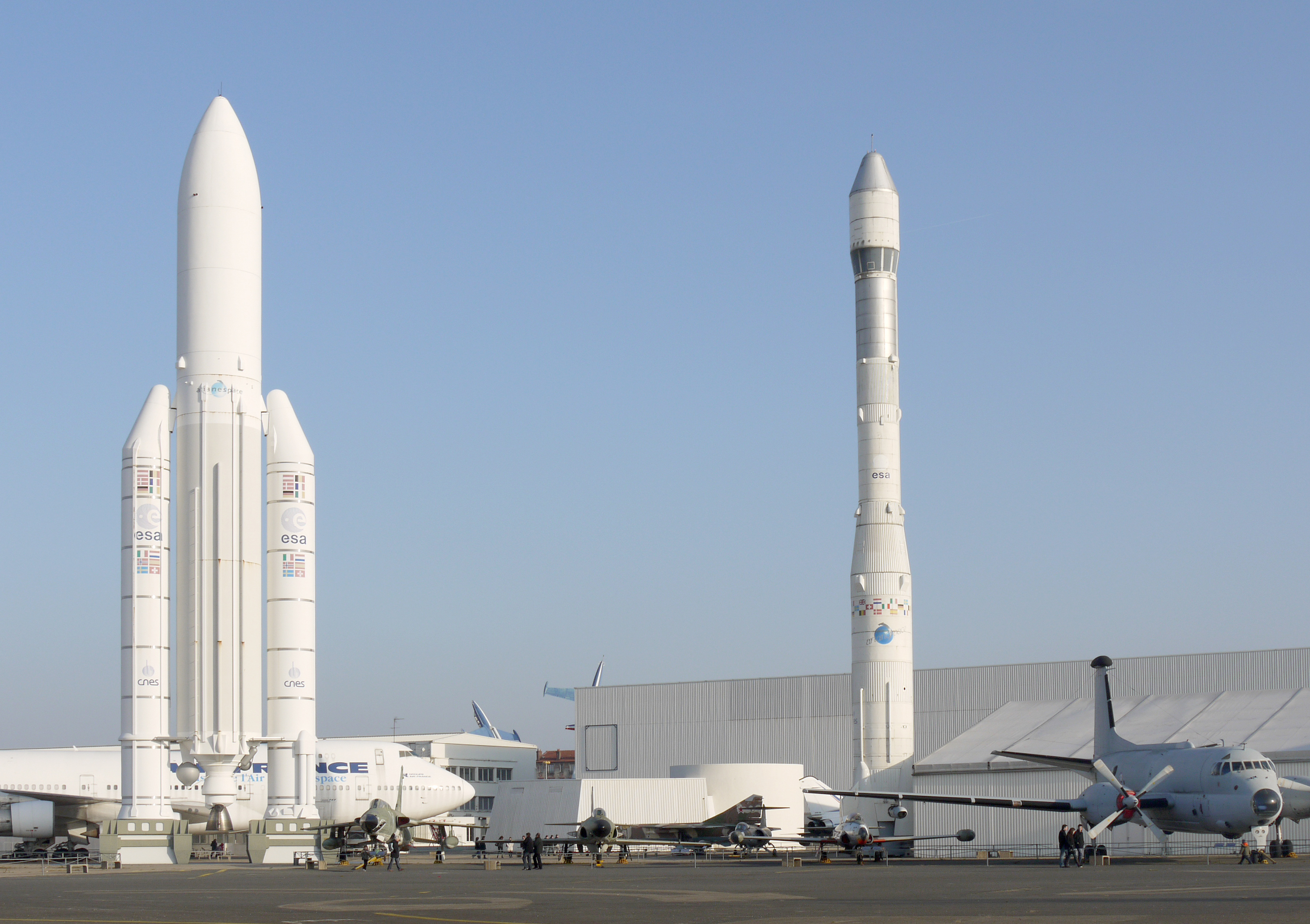 Ariane 1 and Ariane 5 rockets, Museum of Air and Space Paris, Le Bourget (France)